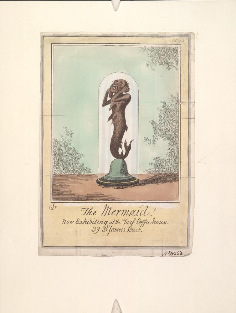 Print of The mermaid; Rd. Wood (manuscript). Imprint erased; Mermaid